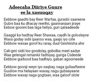 Gabay gudban ee Sayyidka (yarayn) - Gudban poem from the Sayyid - snippet